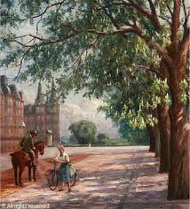 Painting of Øster Søgade in Copenhagen, Denmark. One of the Søtorvet Buildings is visible in the background